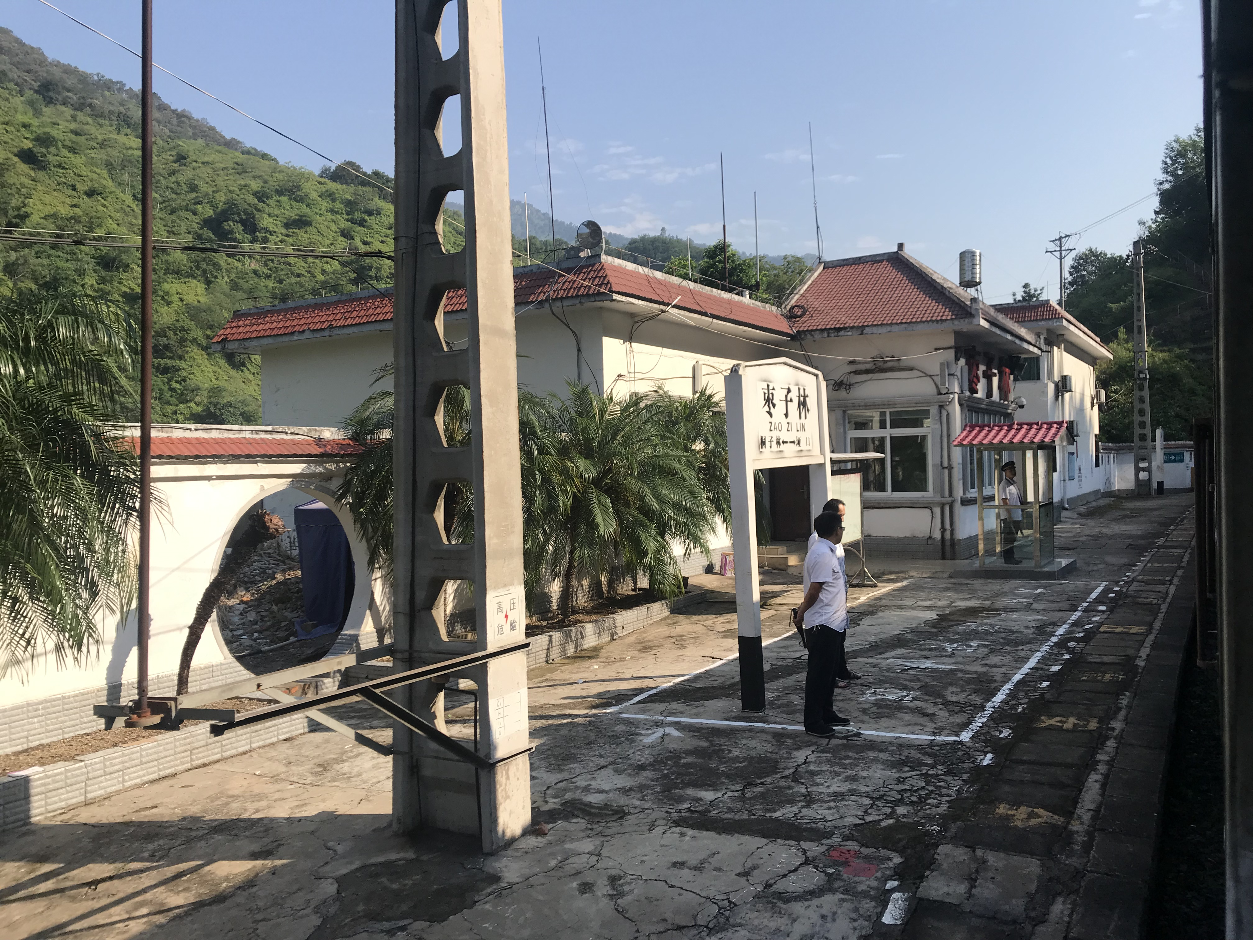 201908 Station Building of Zaozilin